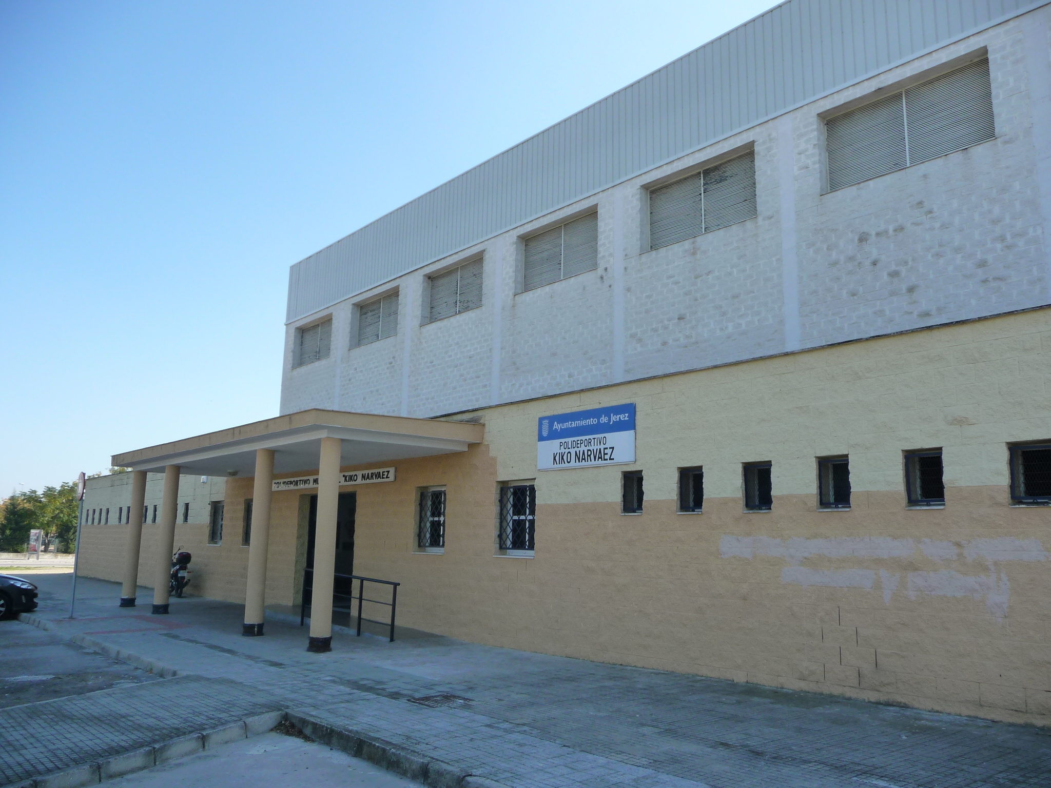 Kiko Narvaez sport center, Jerez de la Frontera (Andalusia, Spain)